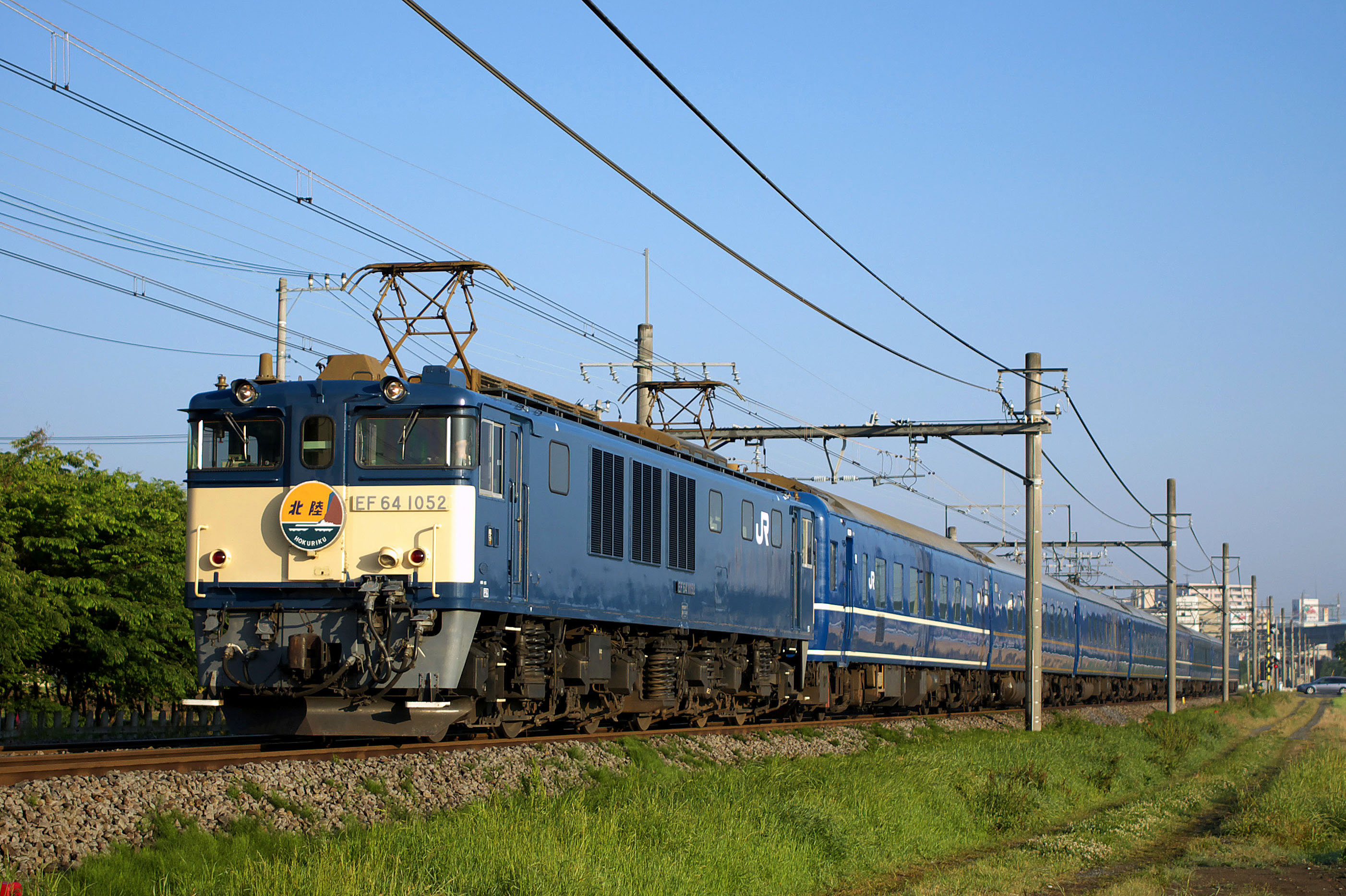 JR East (previously JNR) Class EF64-1000 electric locomotive and 14 series sleeping cars forming the Limited express "Hokuriku", on Takasaki Line between Kumagaya and Gyoda Stations.